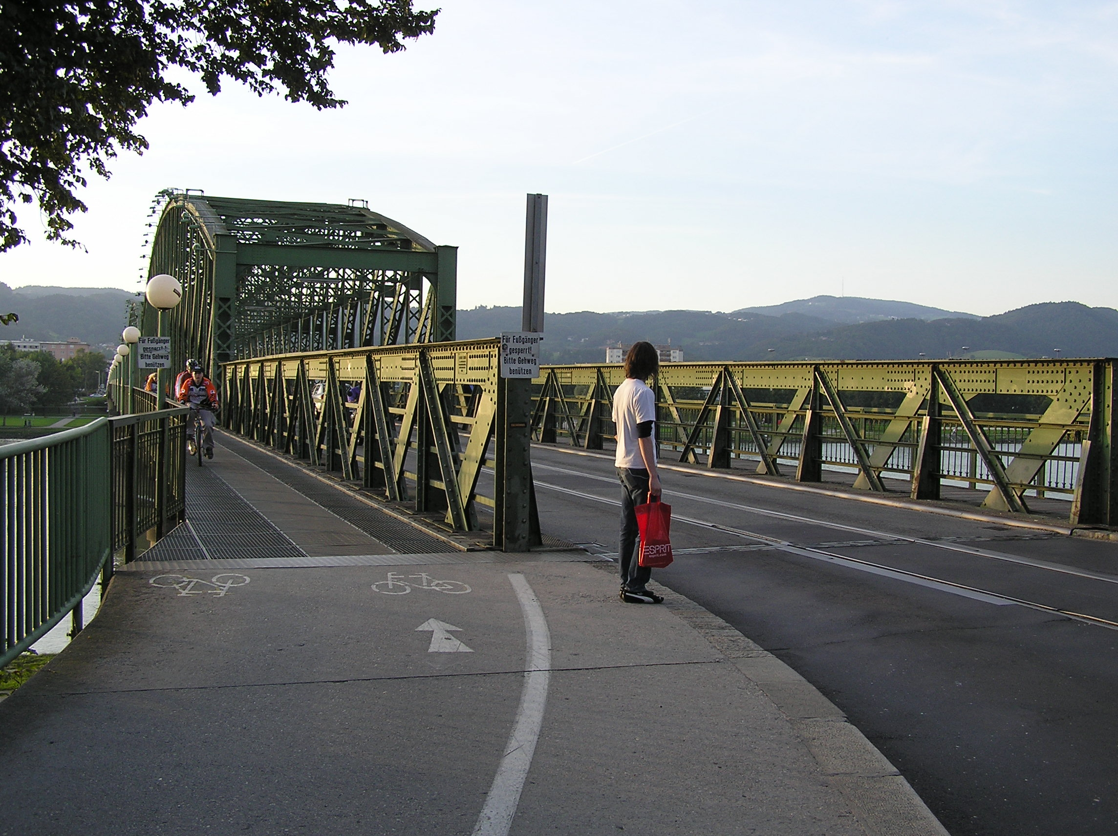 Eisenbahnbrücke ("railway bridge") over the Danube in Linz, Upper Austria. In spite of its name the bridge is mainly used by cars. Trains use the bridge only one or two times a day.